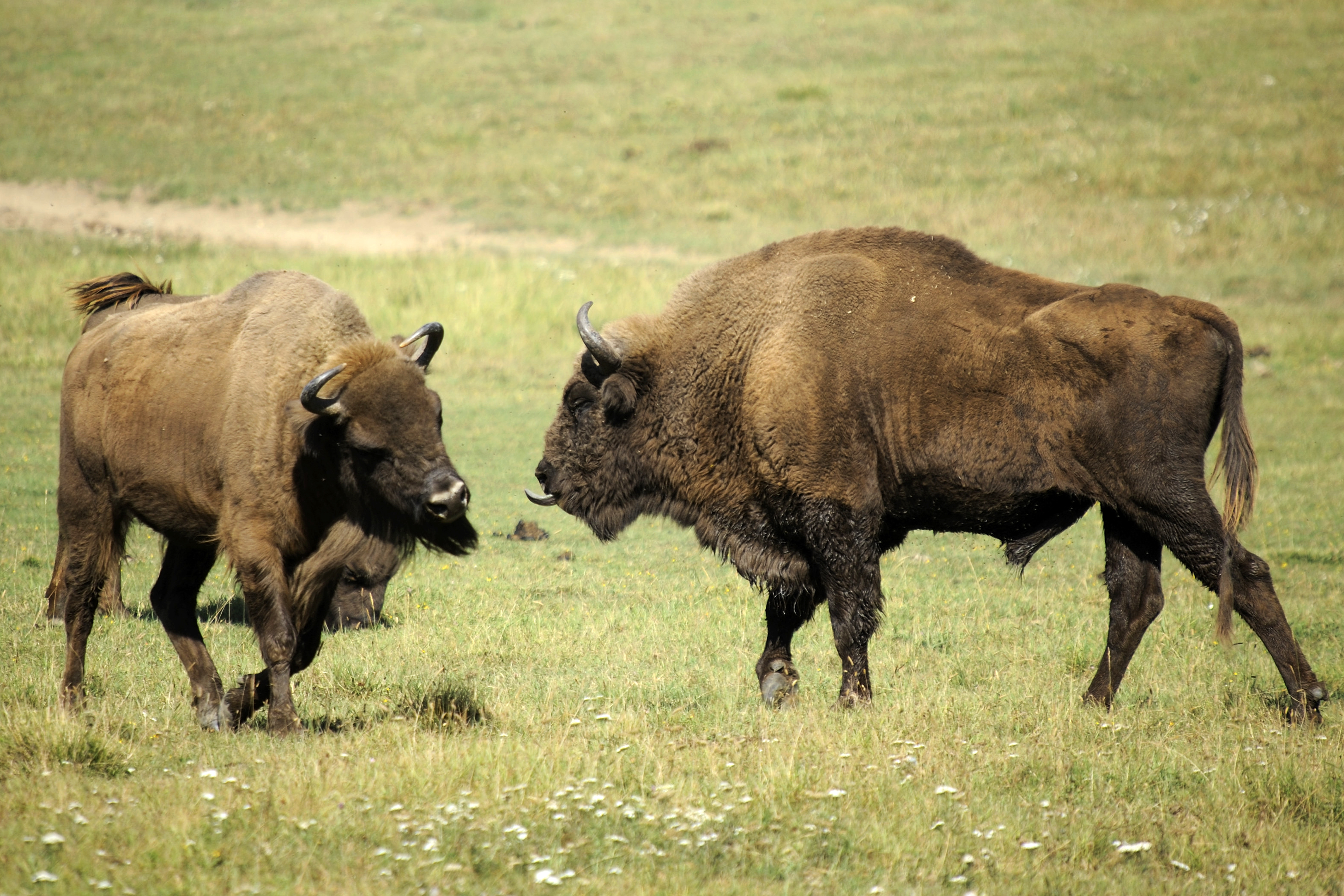 Photo taken in Réserve biologique des Monts d'Azur, Haut-Thorenc, France